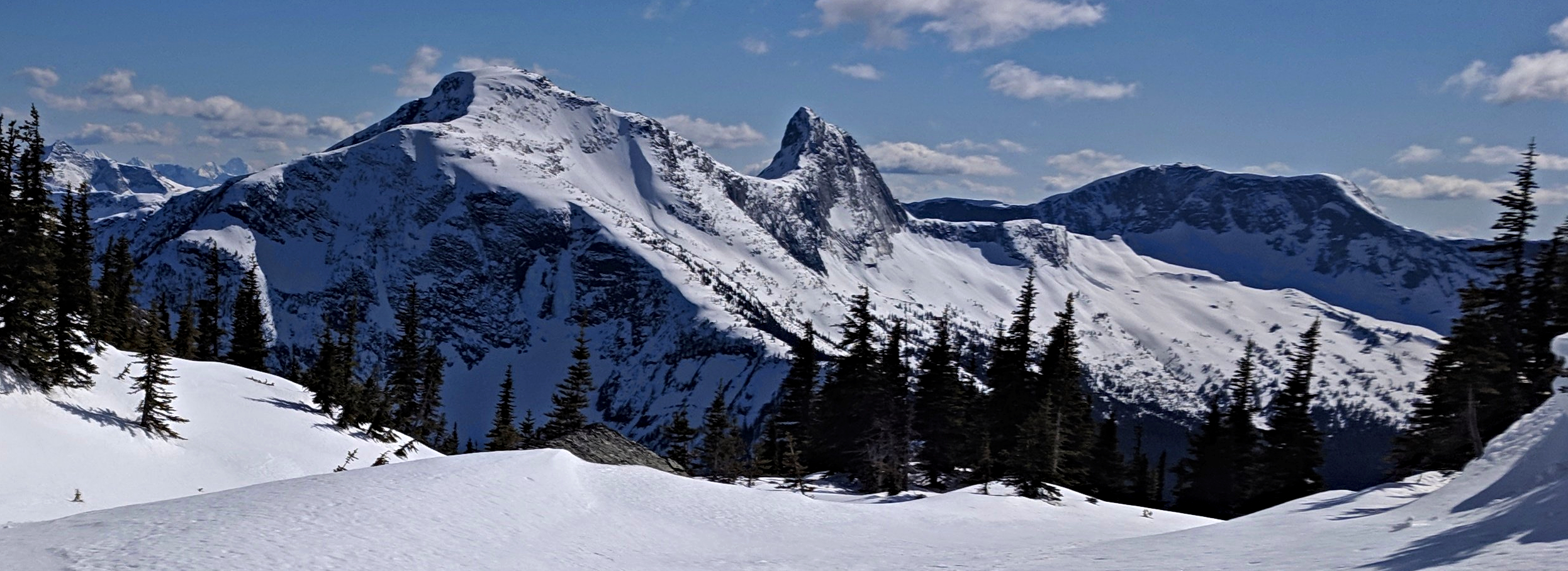 Left to rightː Guanaco Peak, Vicuna, Peak, and Alpaca Peak